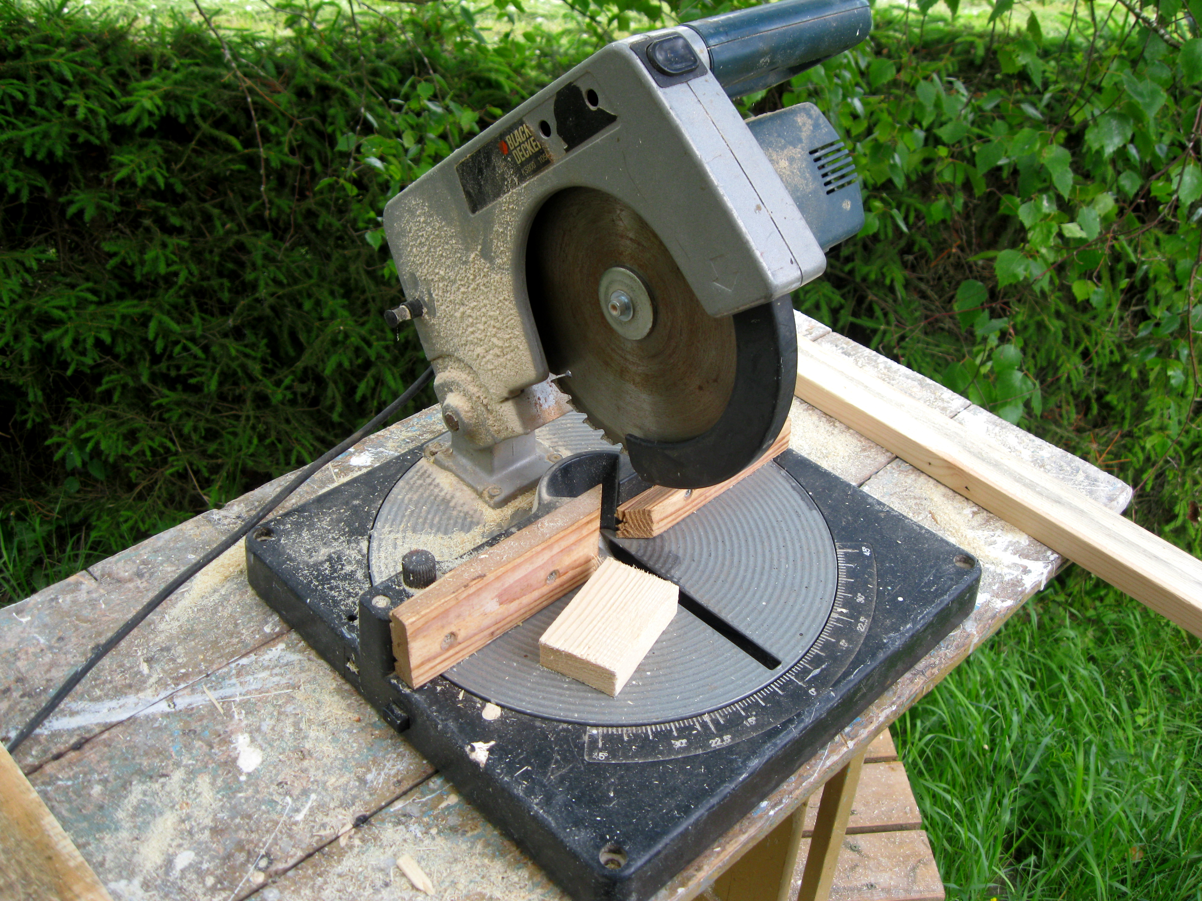 Black & Decker miter saw.